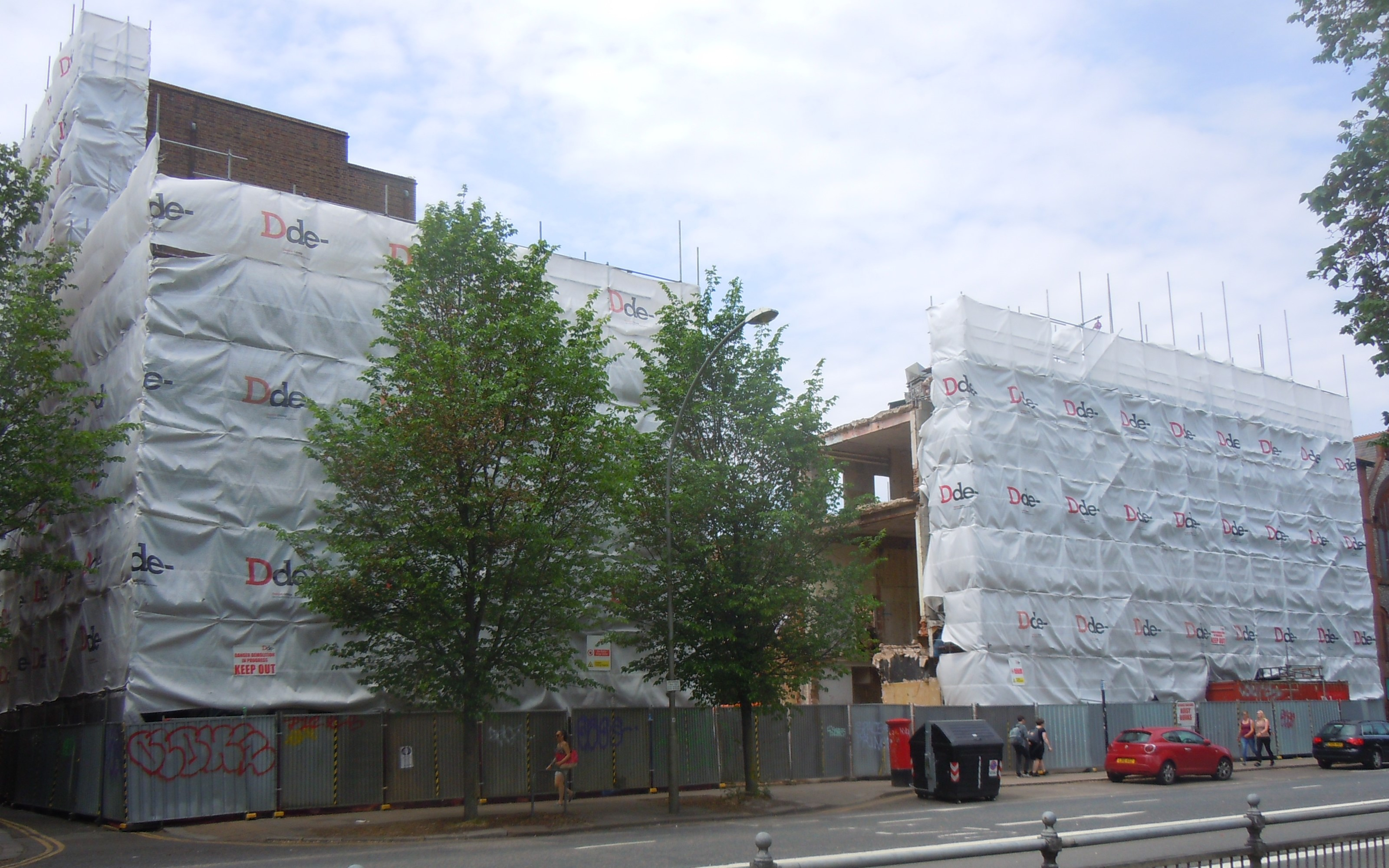 Demolition of the former Astoria Cinema, Gloucester Place, Brighton, City of Brighton and Hove, England. Built in 1933 as an 1,800-capacity "super-cinema" by Edward Stone, it became a bingo hall in 1977 and closed down in 1997. Demolition began in April 2018. A mixed commercial and residential development called Brighton Rox will be built on the site.